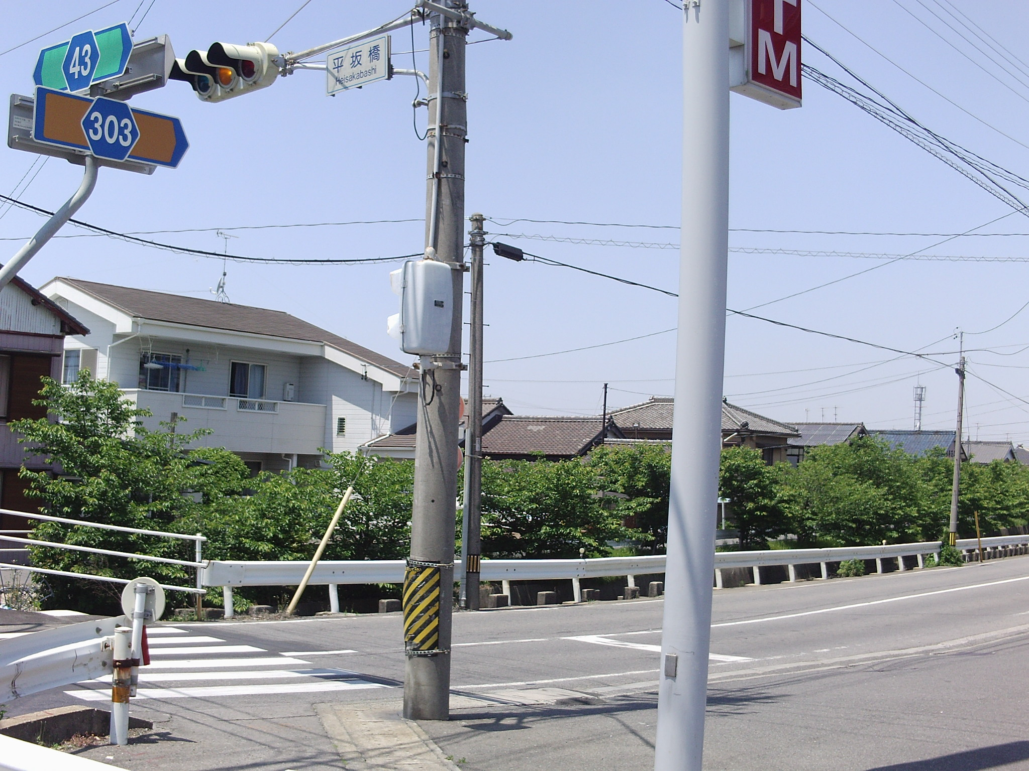 Aichi prefectural road No.303 in Heisakacho, Nishio, Aichi.